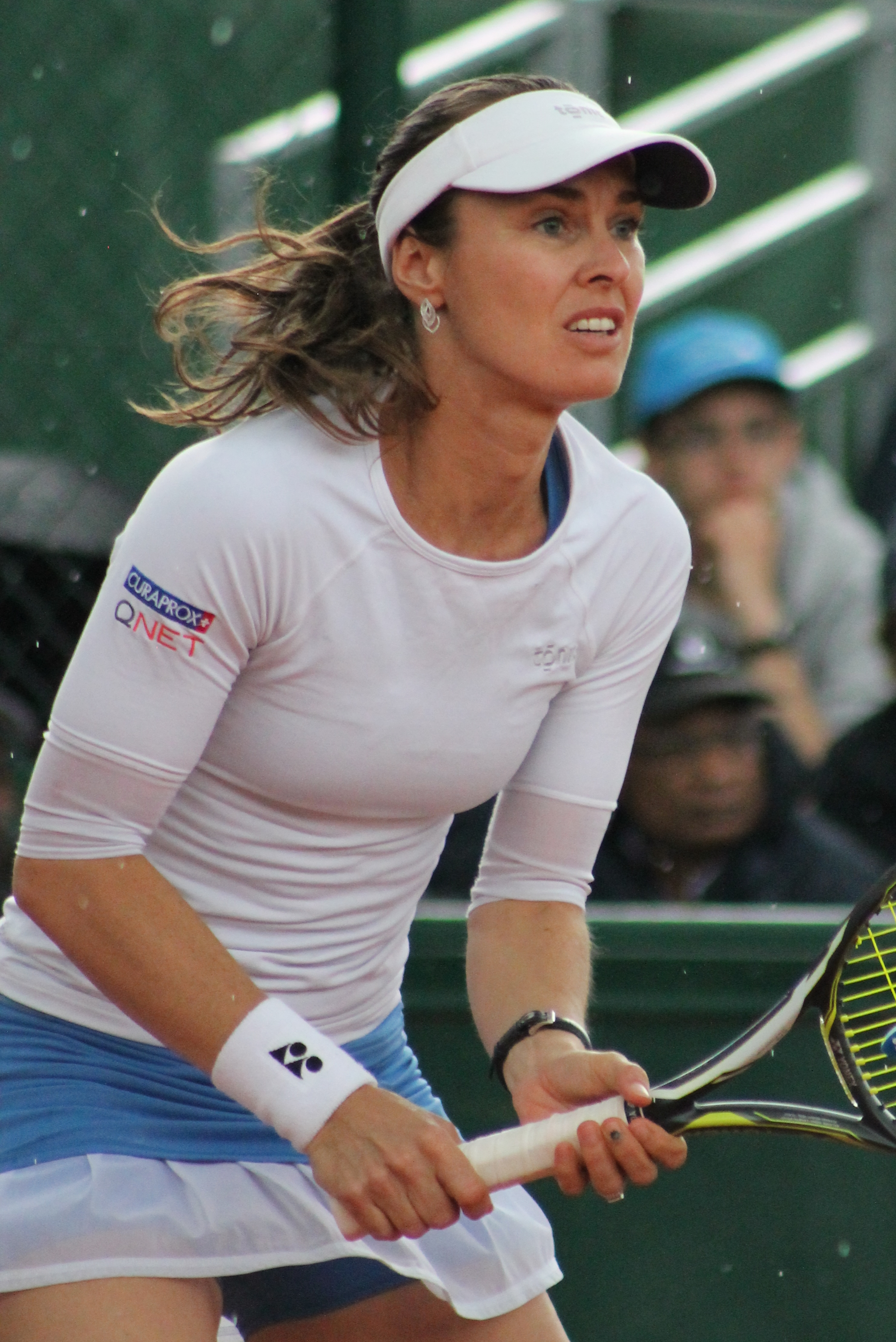 Martina Hingis at the Roland Garros 2016